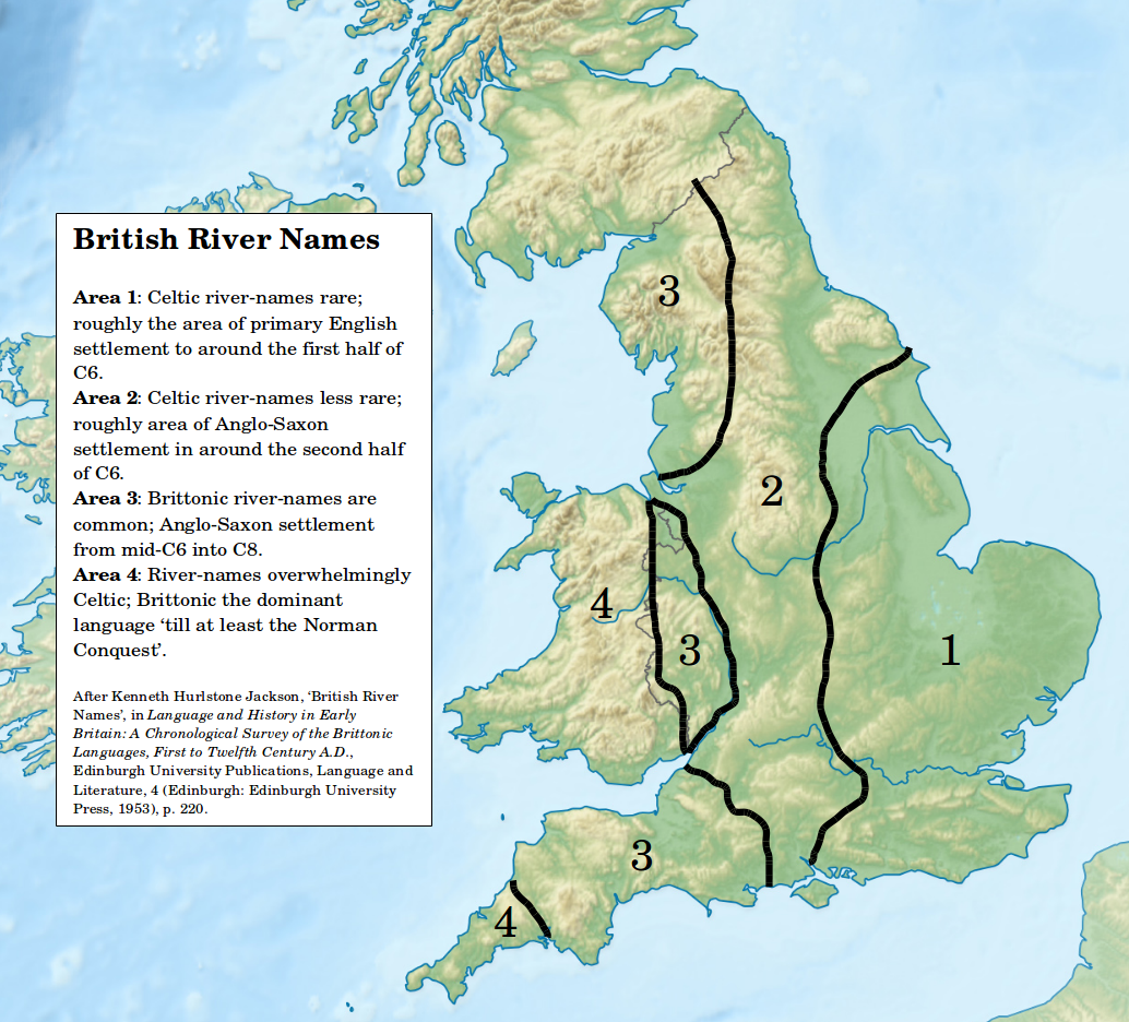 Map showing British river names of Celtic etymology, after Kenneth Hurlstone Jackson, 'British River Names', in Language and History in Early Britain: A Chronological Survey of the Brittonic Languages, First to Twelfth Century A.D., Edinburgh University Publications, Language and Literature, 4 (Edinburgh: Edinburgh University Press, 1953), p. 220. According to Jackson, in Area I, Celtic names are rare and confined to large and medium-sized rivers; the area 'corresponds fairly closely with the extent of primary English settlement down to about the first half of the sixth century'. Area II has a higher proportion of Celtic river names and seems to correlate with Anglo-Saxon settlement in the second half of the sixth century. In Area III, 'Brittonic river names are especially common, including often those of mere streams'. The area corresponds to Anglo-Saxon settlement from the mid-sixth century into the eighth. In Area IV, Brittonic remained the dominant language 'till at least the Norman Conquest' and river names are overwhelmingly Celtic.